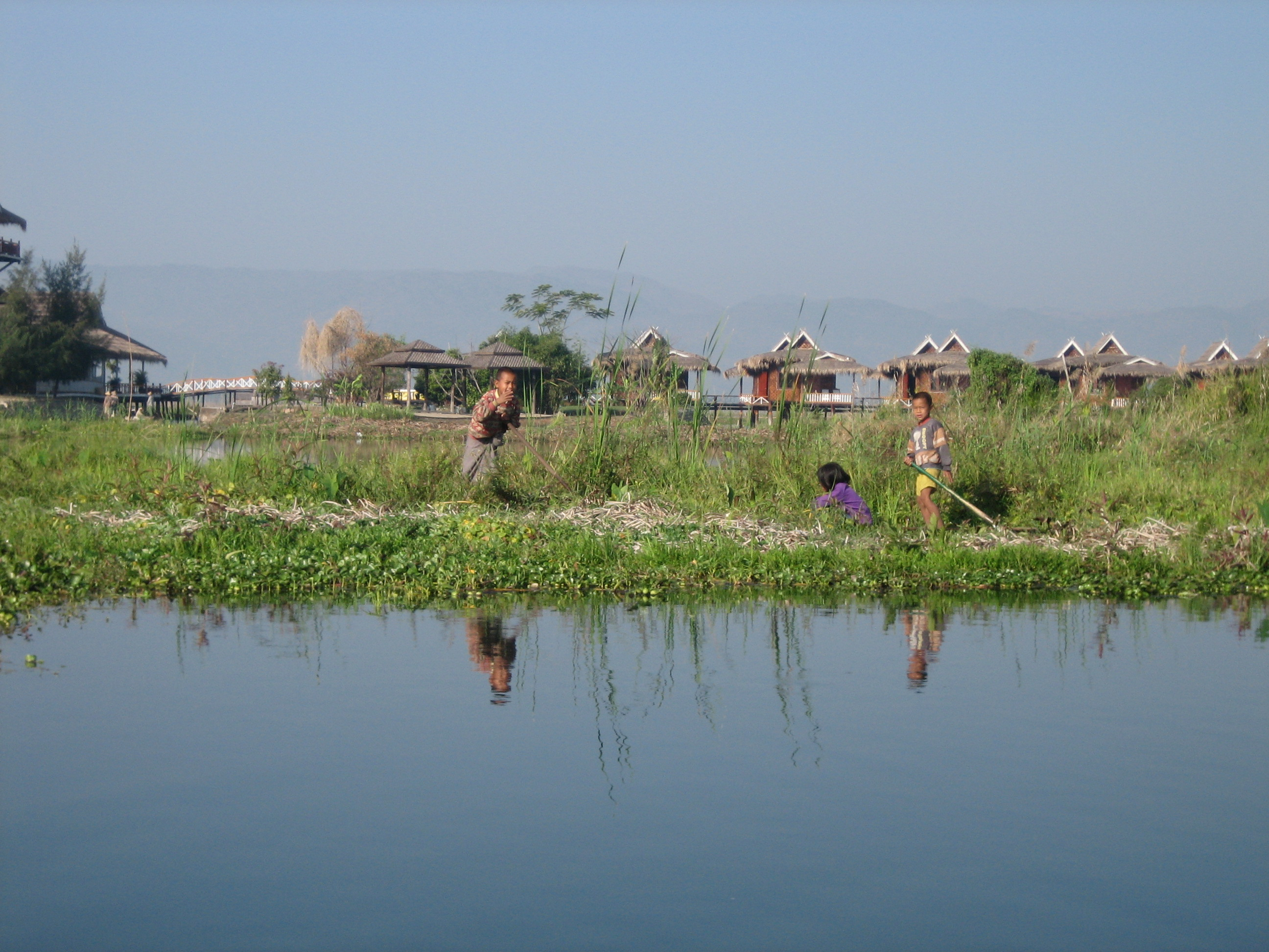 Floating Farm in Lake Inle